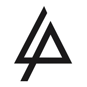 New Linkin Park logo